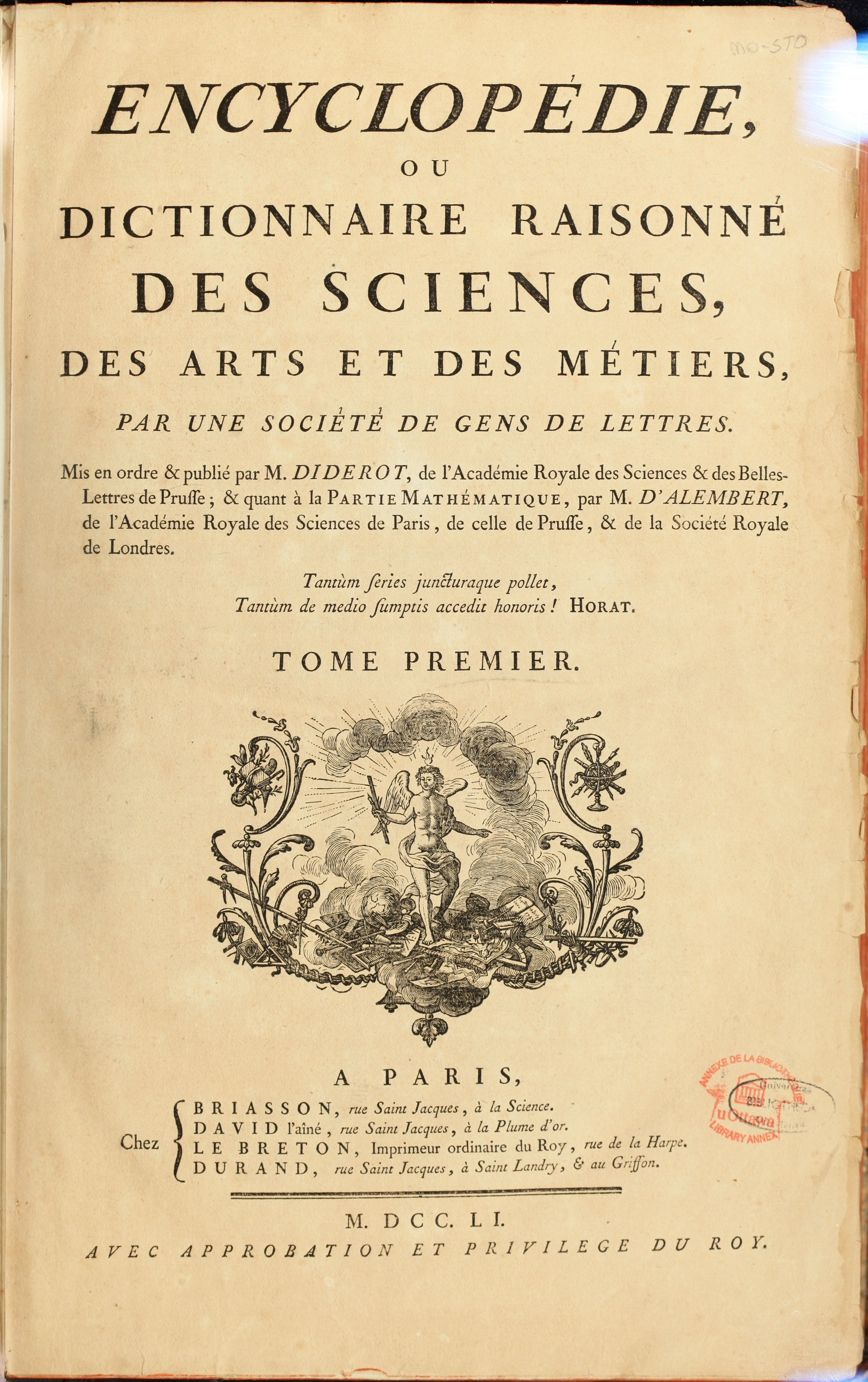 Cover of the "Encyclopédie, ou dictionnaire raisonné des sciences, des arts et des métiers" Edited by Denis Diderot and Jean le Rond D'Alembert (Encyclopaedia or a Systematic Dictionary of the Sciences, Arts and Crafts)